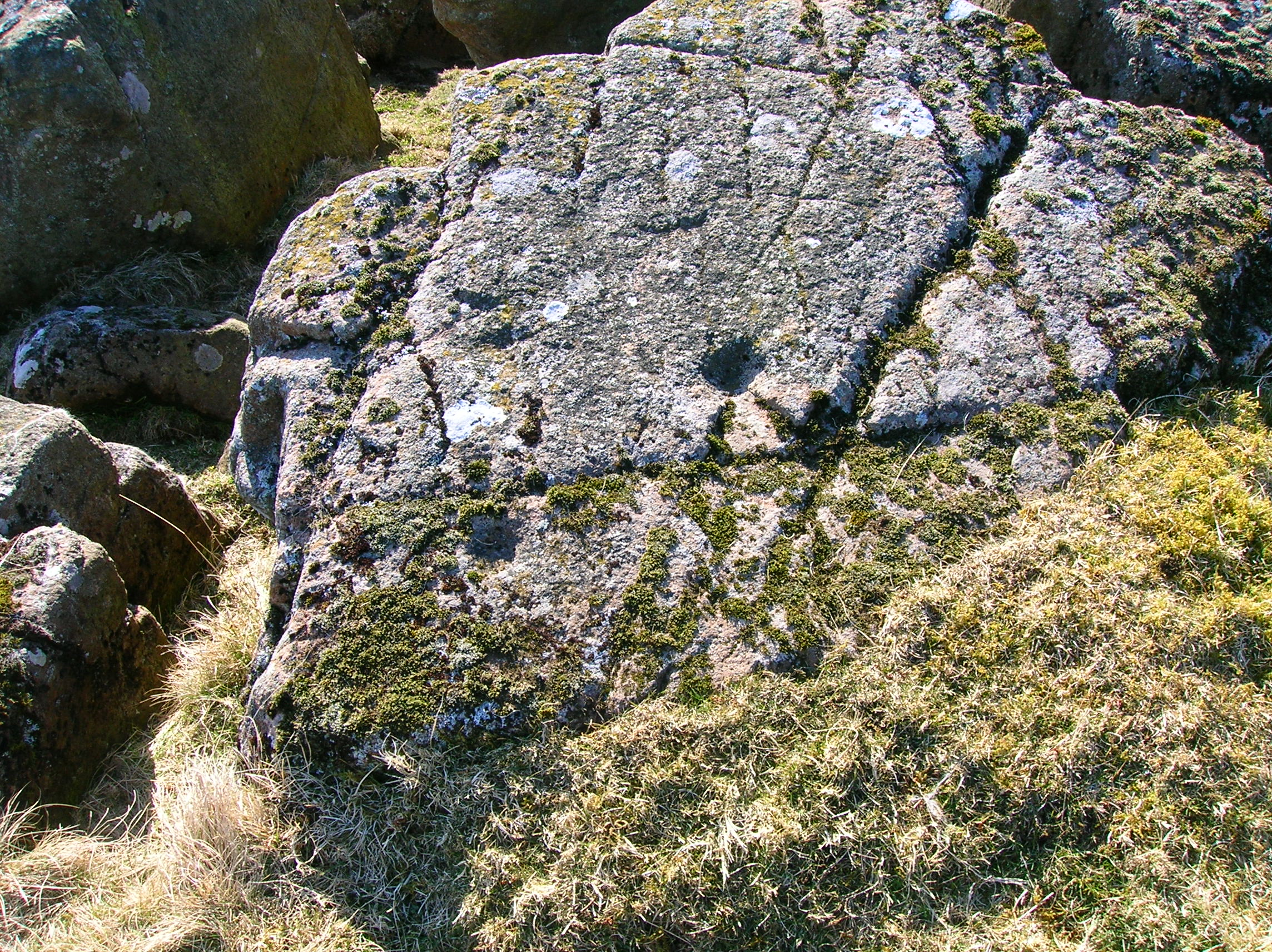 Cup marks, Carlin Crags, Bonnyton Moor, Eaglesham, East Renfrewshire, Scotland.